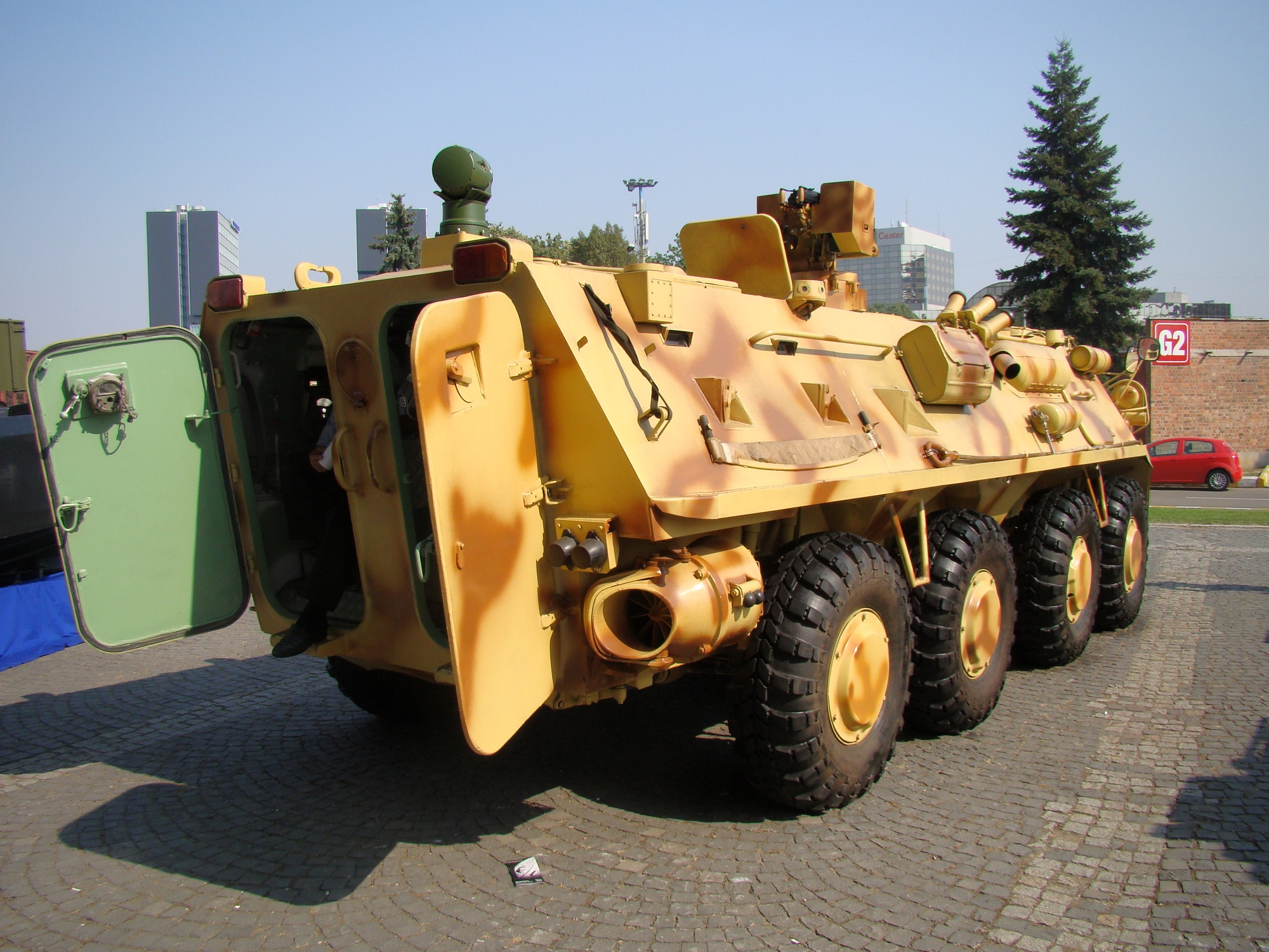 SAUR 1 APC on display at Expomil 2011.